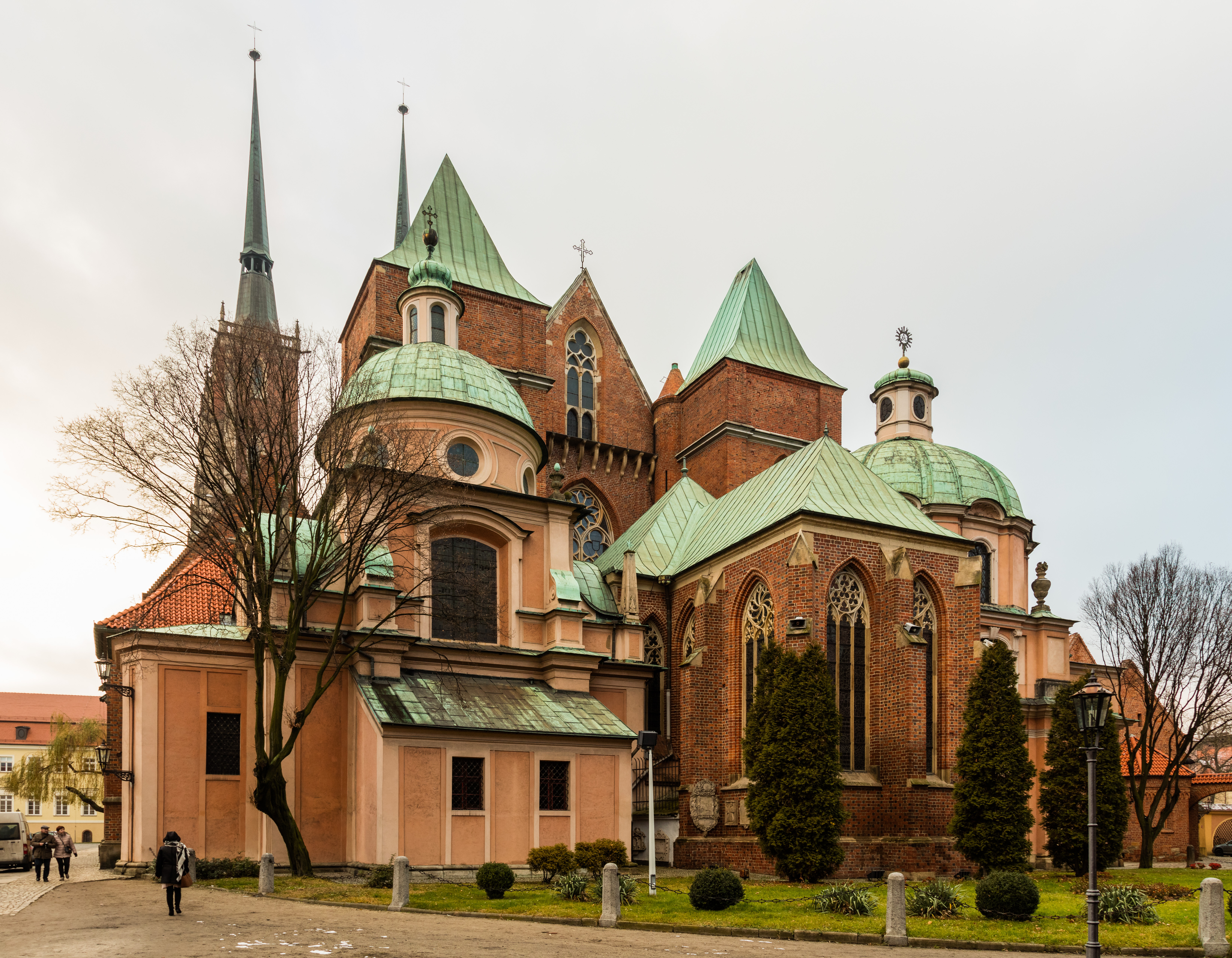 St. John Cathedral Church, Wrocław, Poland